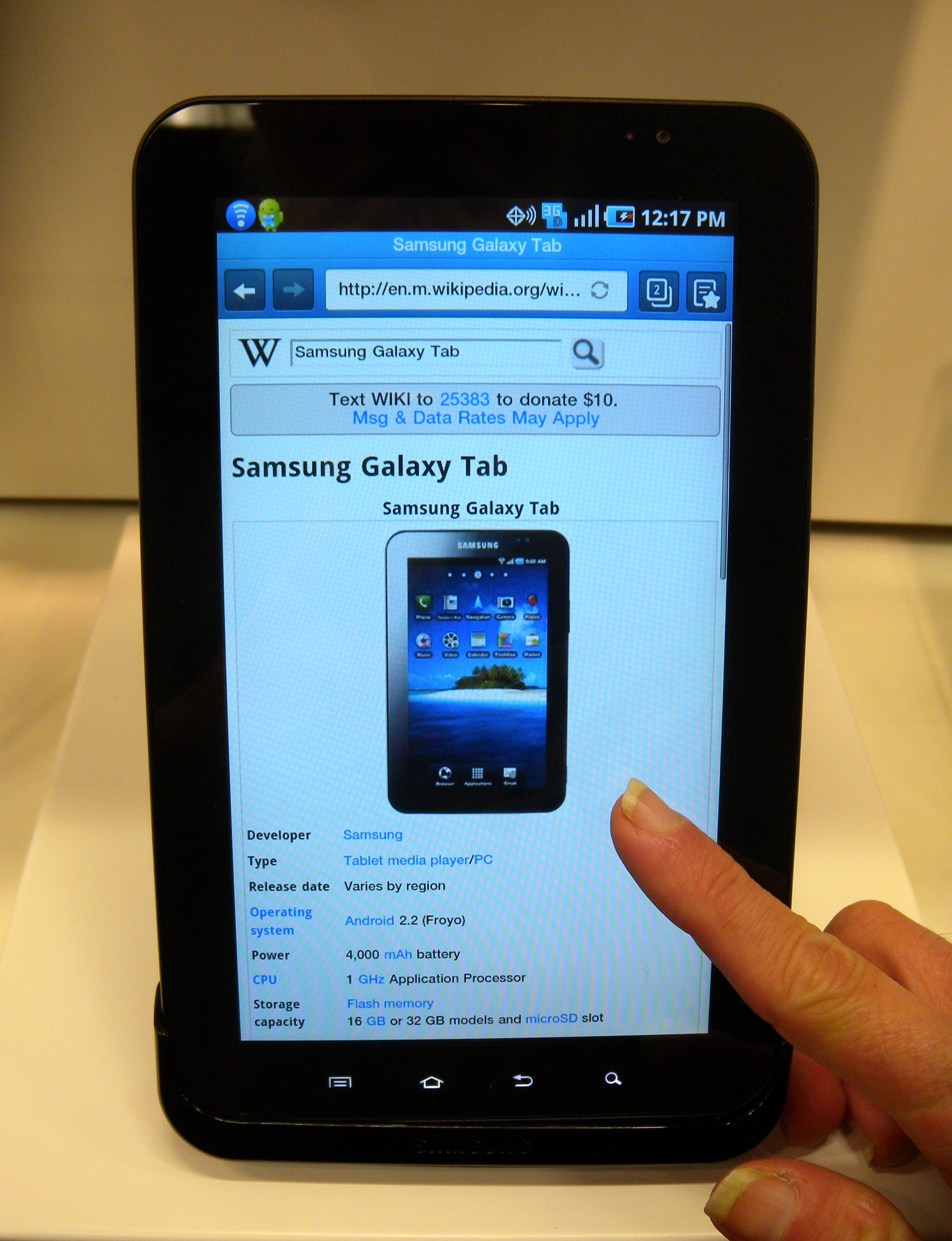 Samsung Galaxy Tab showing its Wikipedia article.